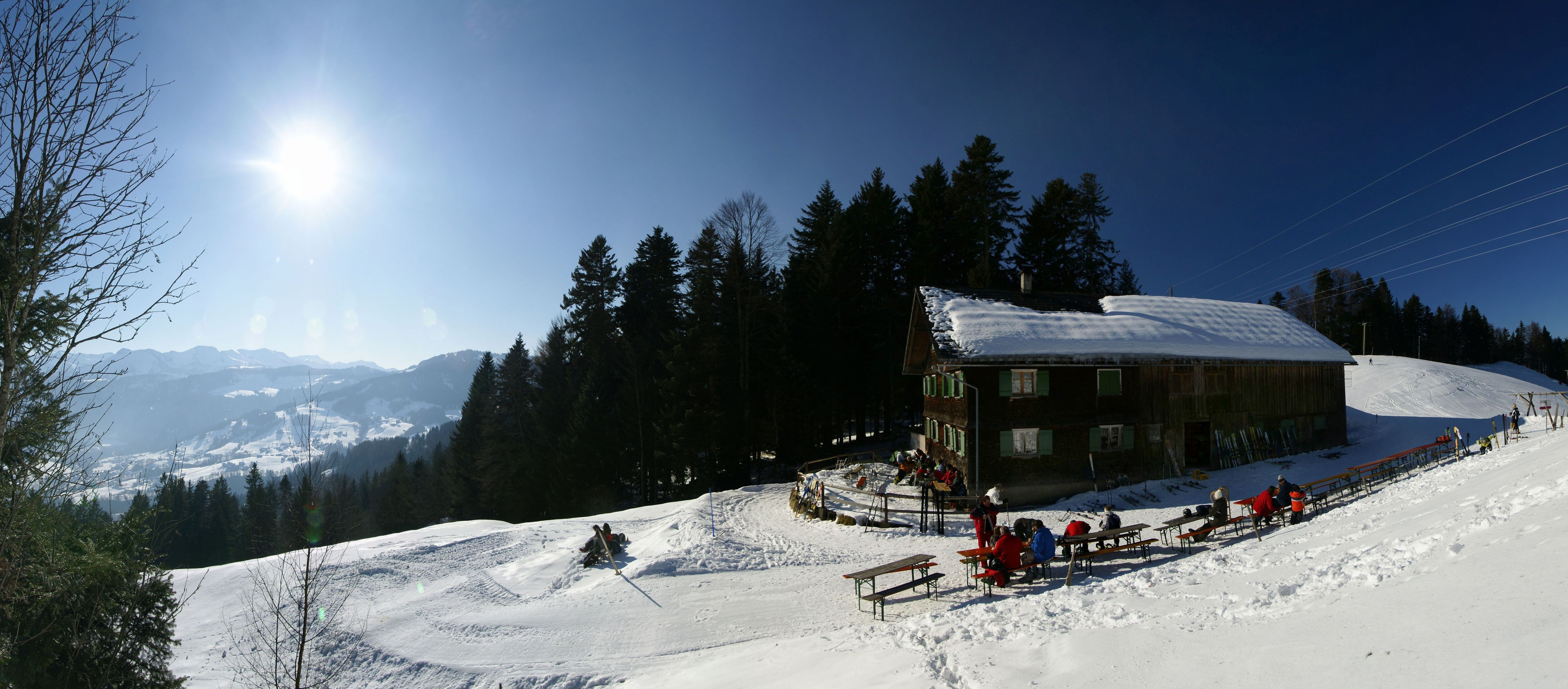 panorama at Berchtoldshöhe, located between Alberschwende and Schwarzenberg, Vorarlberg, Austria.